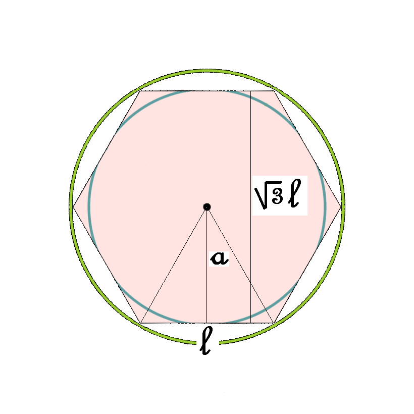 Hexagon with inscribed and circumscribed circles